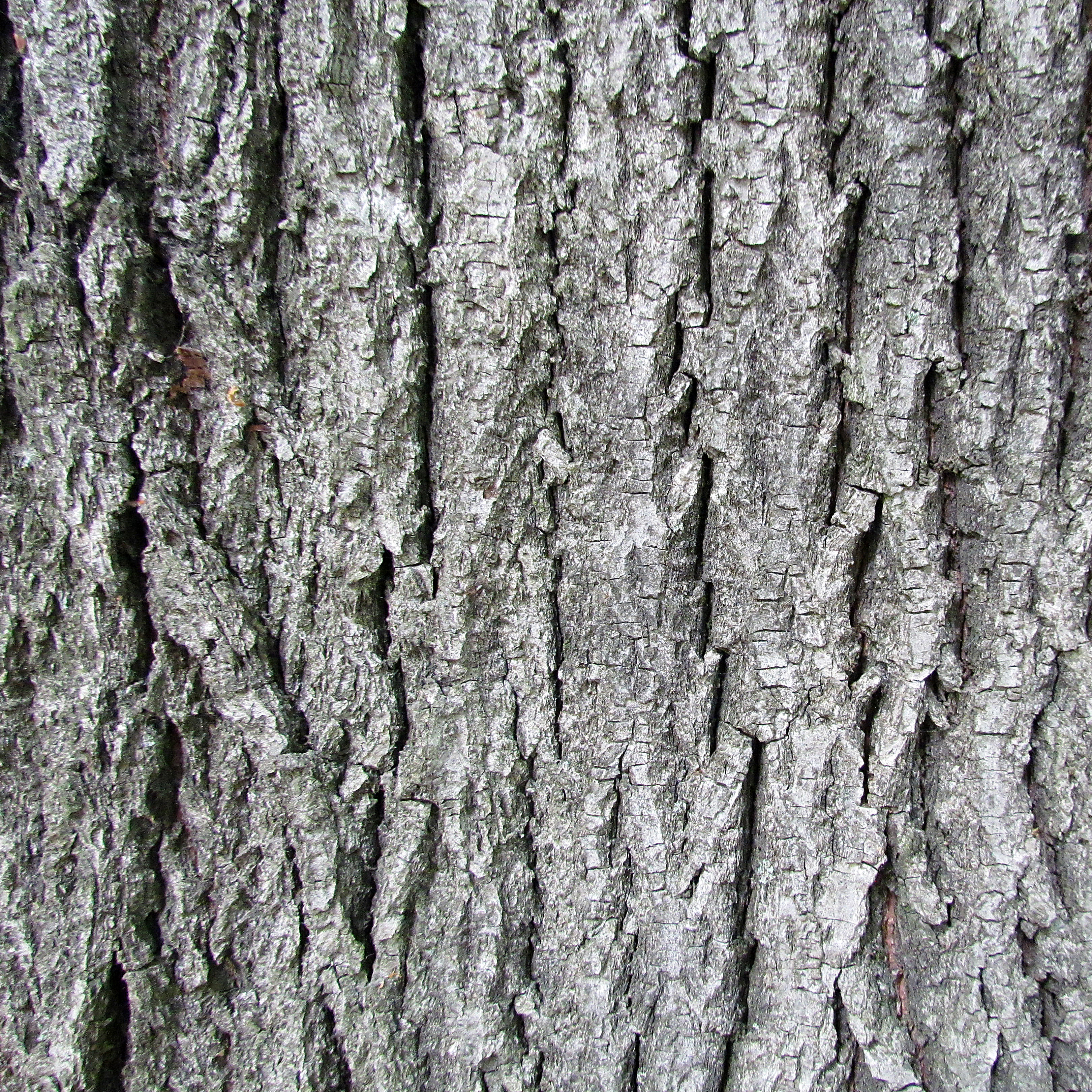 Tilia platyphyllos bark